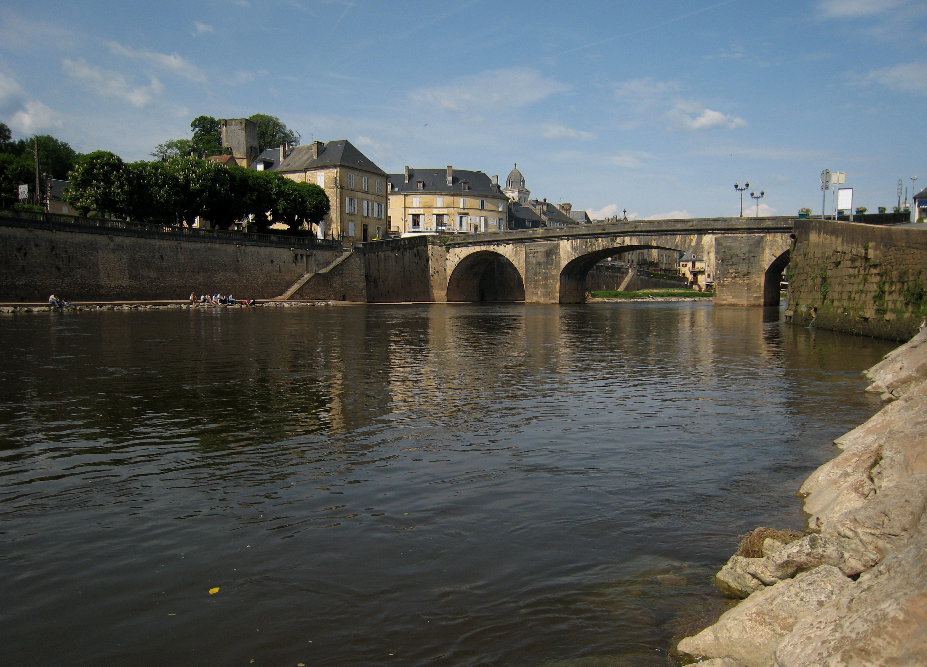 Bridge over the river Vézère in the village of Montignac, situated in the Département of Dordogne/France